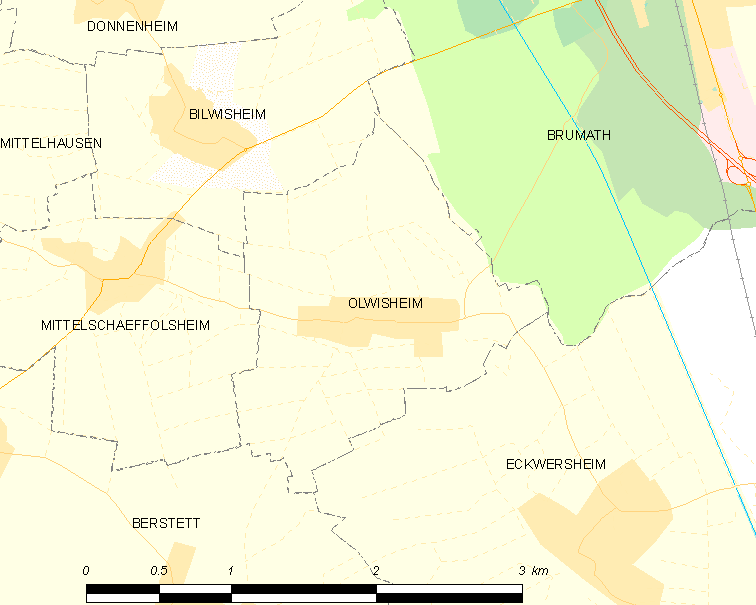 Map of French municipality